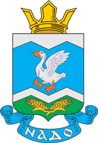 Shadrinsk rayon (Kurgan oblast), proposal coat of arms